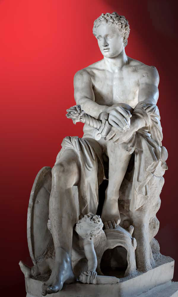 So-called “Ludovisi Ares”. Pentelic marble, Roman copy after a Greek original from ca. 320 BC. Some restorations in Cararra marble by Gianlorenzo Bernini, 1622.